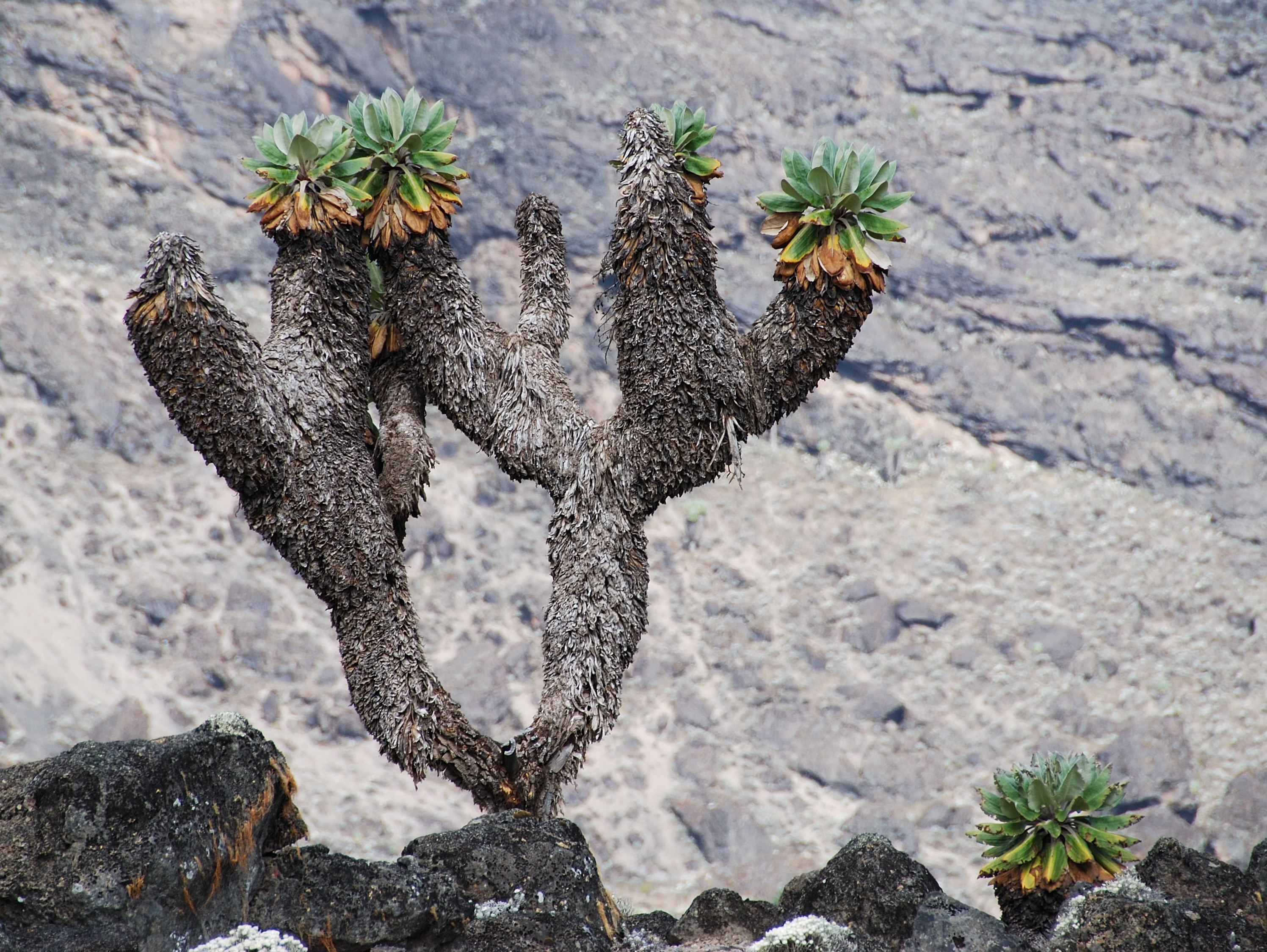 A large Senecio Kilimanjari tree, close to Barranco camp on Mount Kilimanjaro.